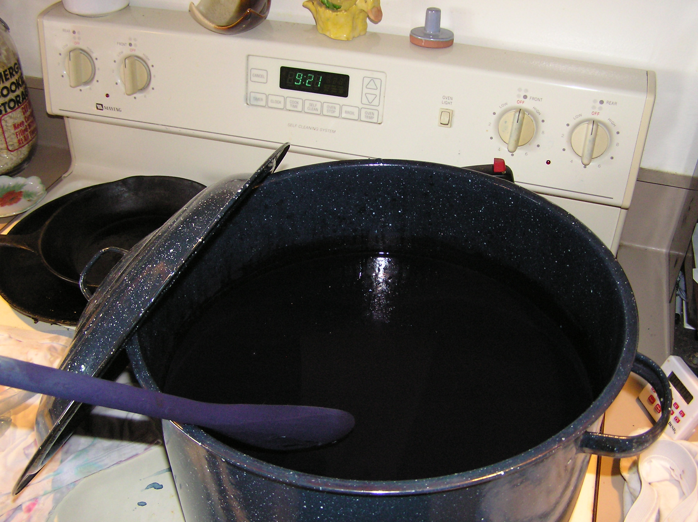 A dye pot of indigo dye sitting on a stove